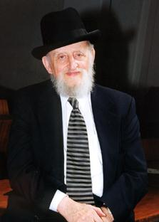 This is a family photo of my grandfather Baruch Poupko that is also on the webpage I created for him